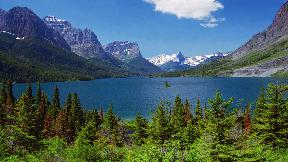 Glacier National Park, Montana, USA, Saint Mary Lake and Wild Goose Island